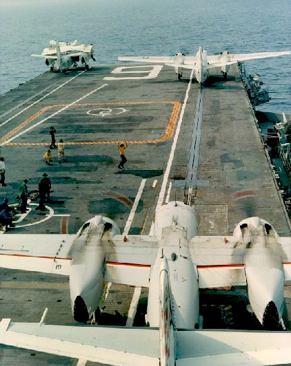 Grumman S-2E Tracker aircraft of Carrier Anti-Submarine Air Group 54 (CVSG-54) launching from the aircraft carrier USS Essex (CVS-9) in 1967.